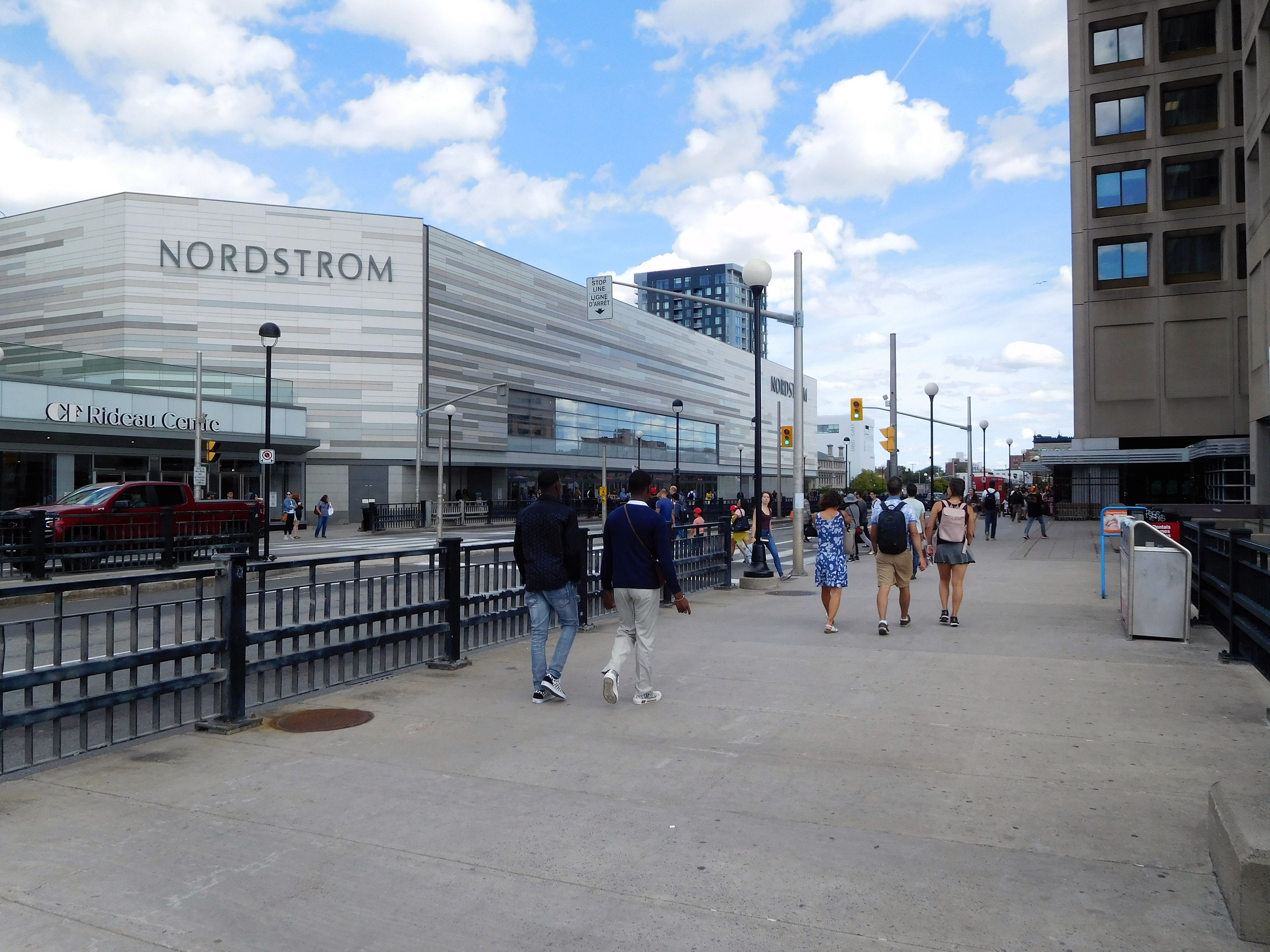 Rideau Centre, near the Mackenzie King Bridge